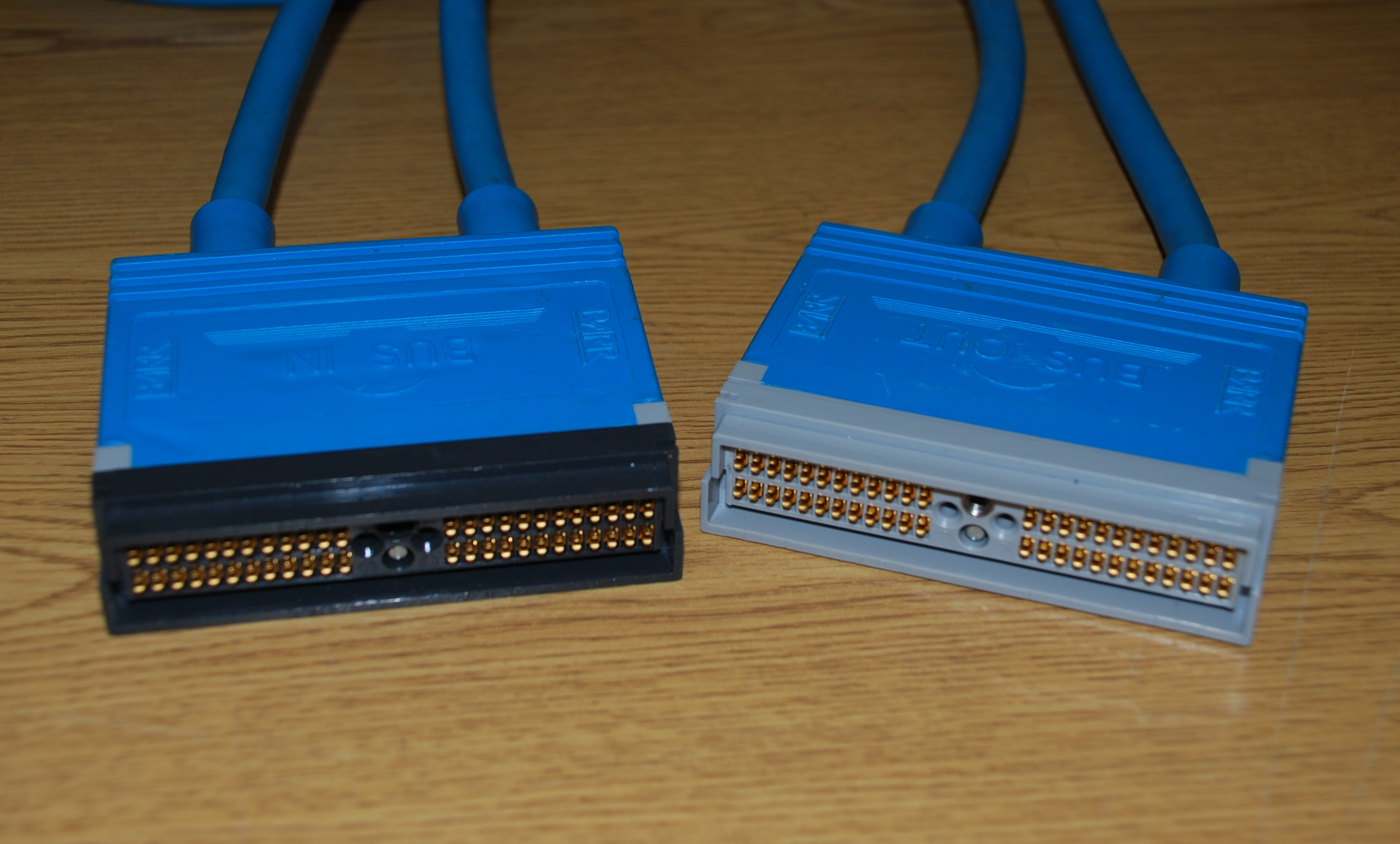 "Bus" cable for IBM System/390 parallel channel by Barr Systems